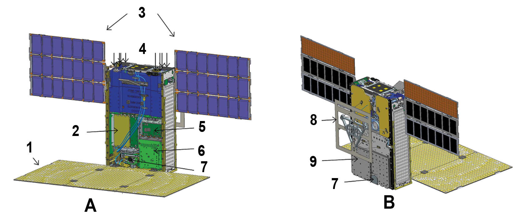 Illustration of one of the twin MarCO CubeSat spacecraft with some key components labeled. Front cover is left out to show some internal components. Antennas and solar arrays are in deployed configuration